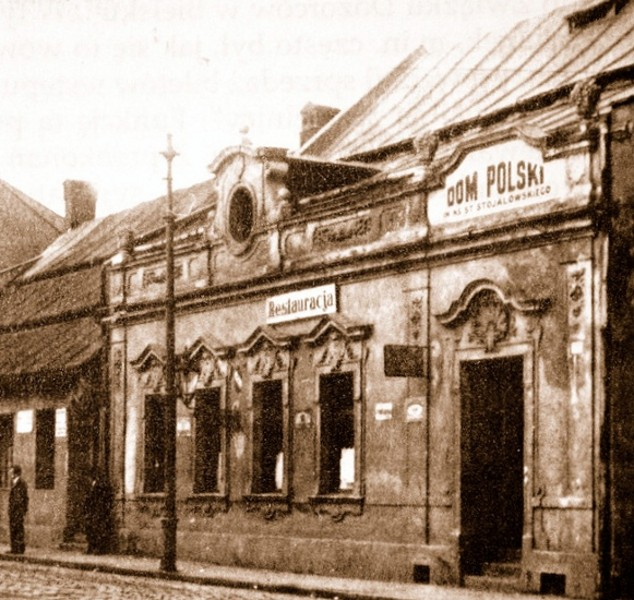 Bielsko-Biała, Poland. Building of Dom Polski in 1930s (destroyed in 1974).